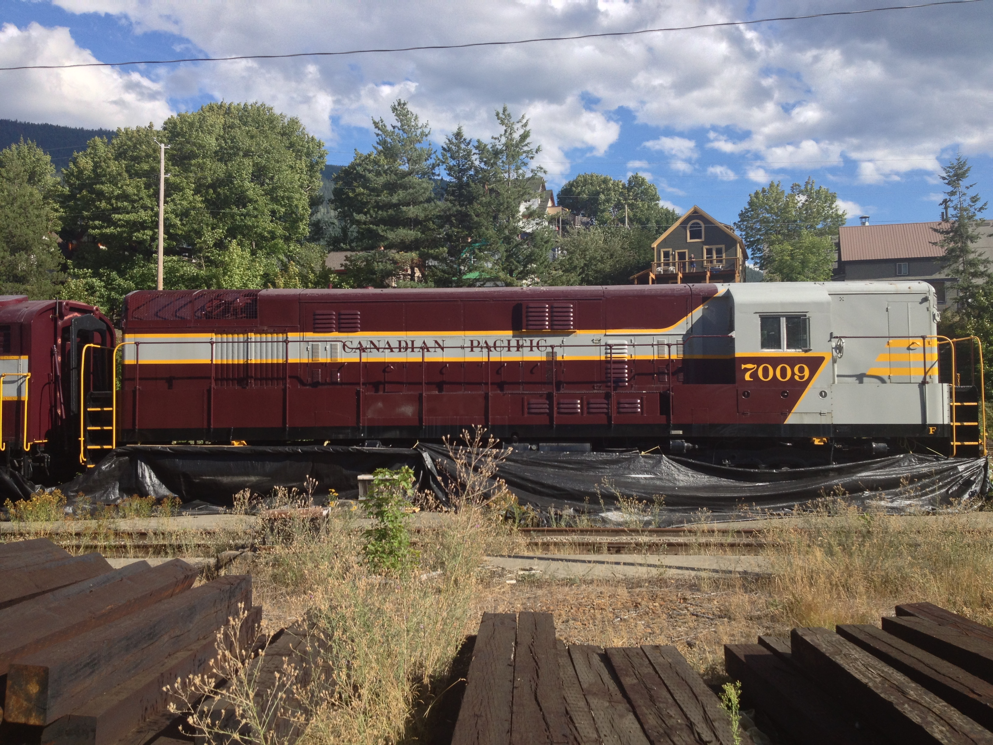 FM H16-66 painted as CPR 7009. In the CPR railyard in Nelson, British Columbia, August 2013